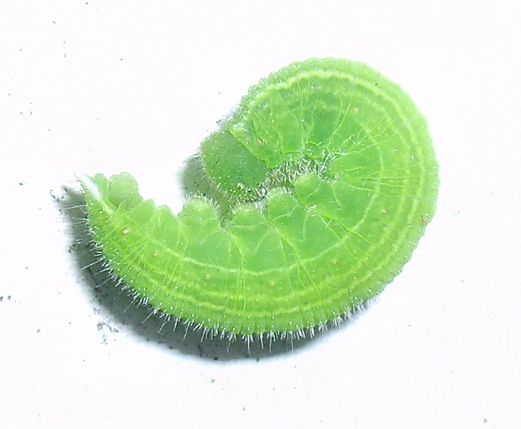 29 09 07 125 Larva of the Wall Butterfly Lasiommata megera